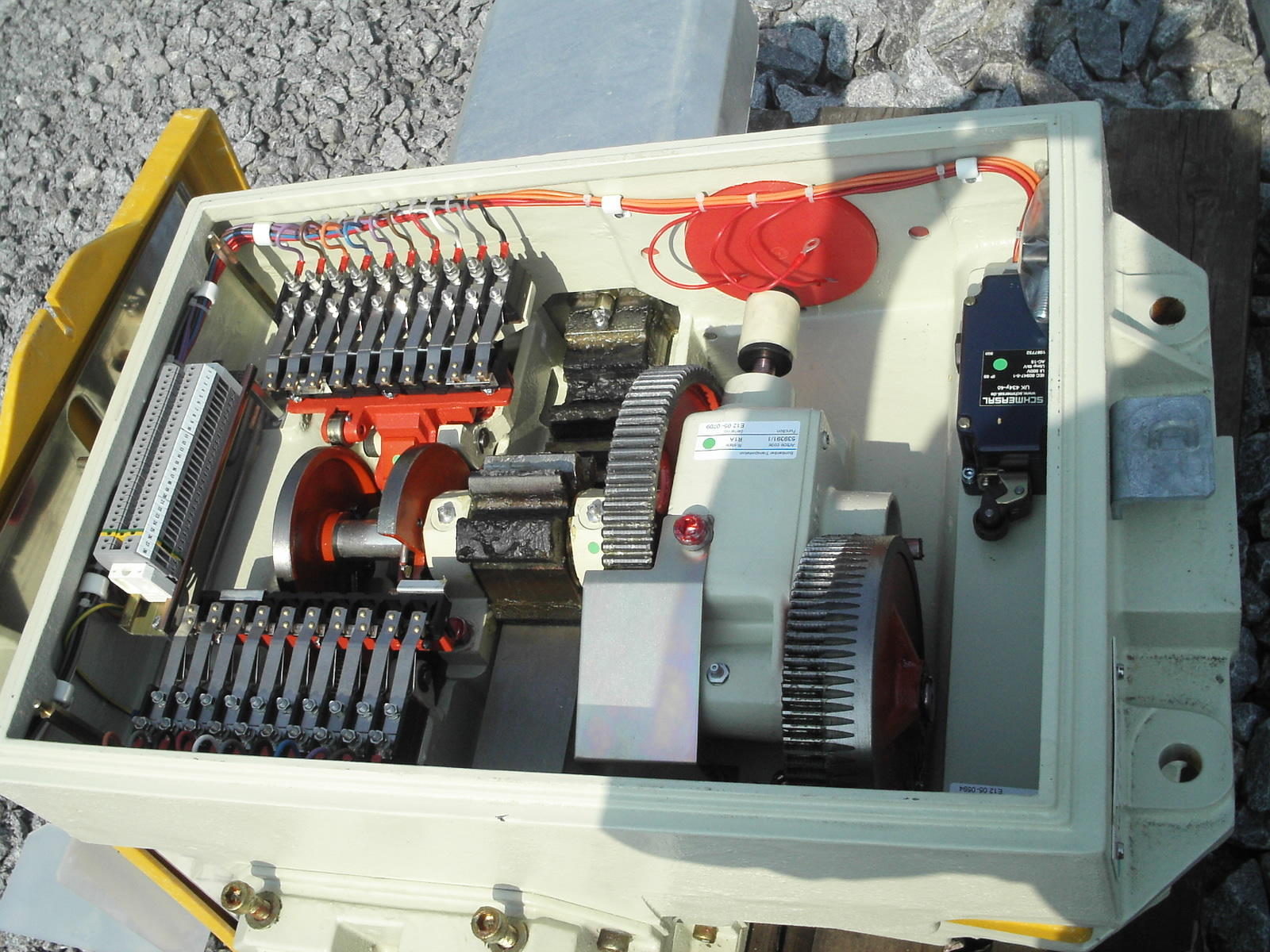 Switch actuator